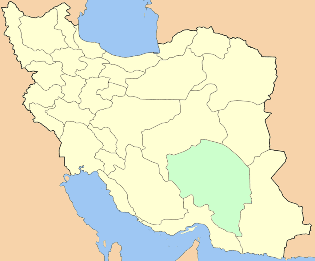 Blank locator map (orthographic projection) of Iran (province of Kerman)